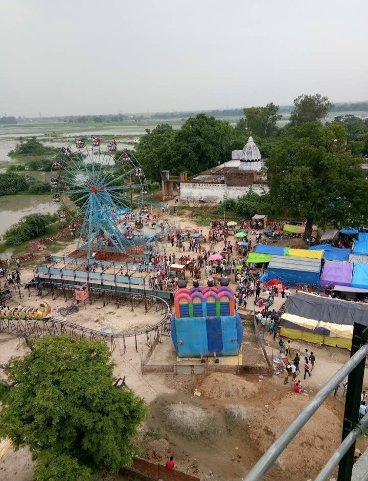 It is Celebrate Festival Shivratri In Hajari Mahadev Mandir Sarsai Nawar Uttar Pradesh India